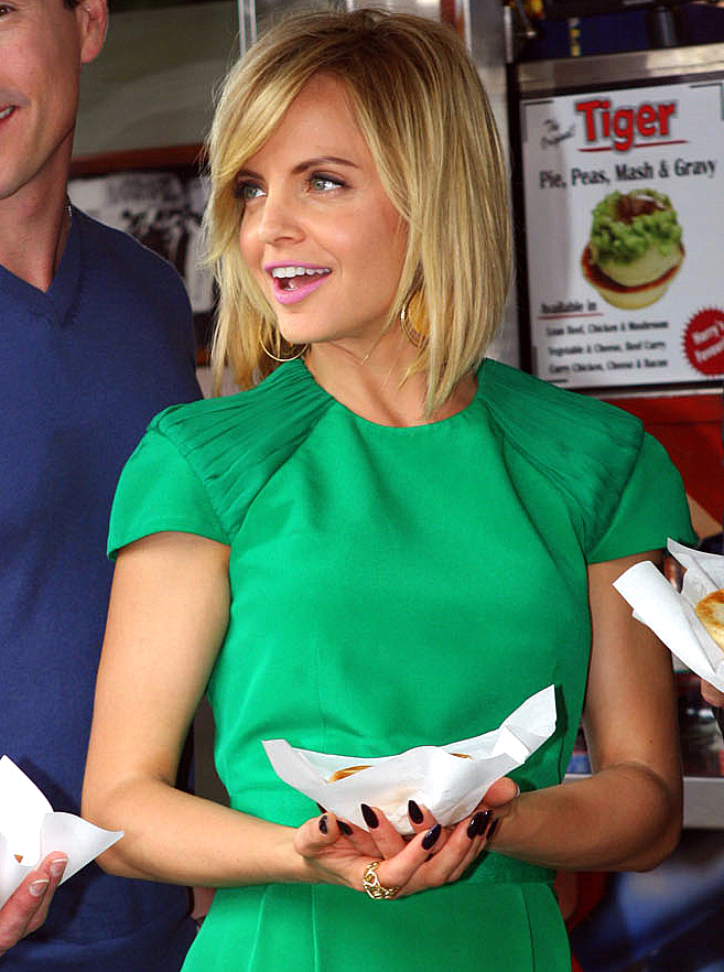 Mena Suvari at the American Pie Reunion, Harry's Cafe de Wheels Sydney 2012.